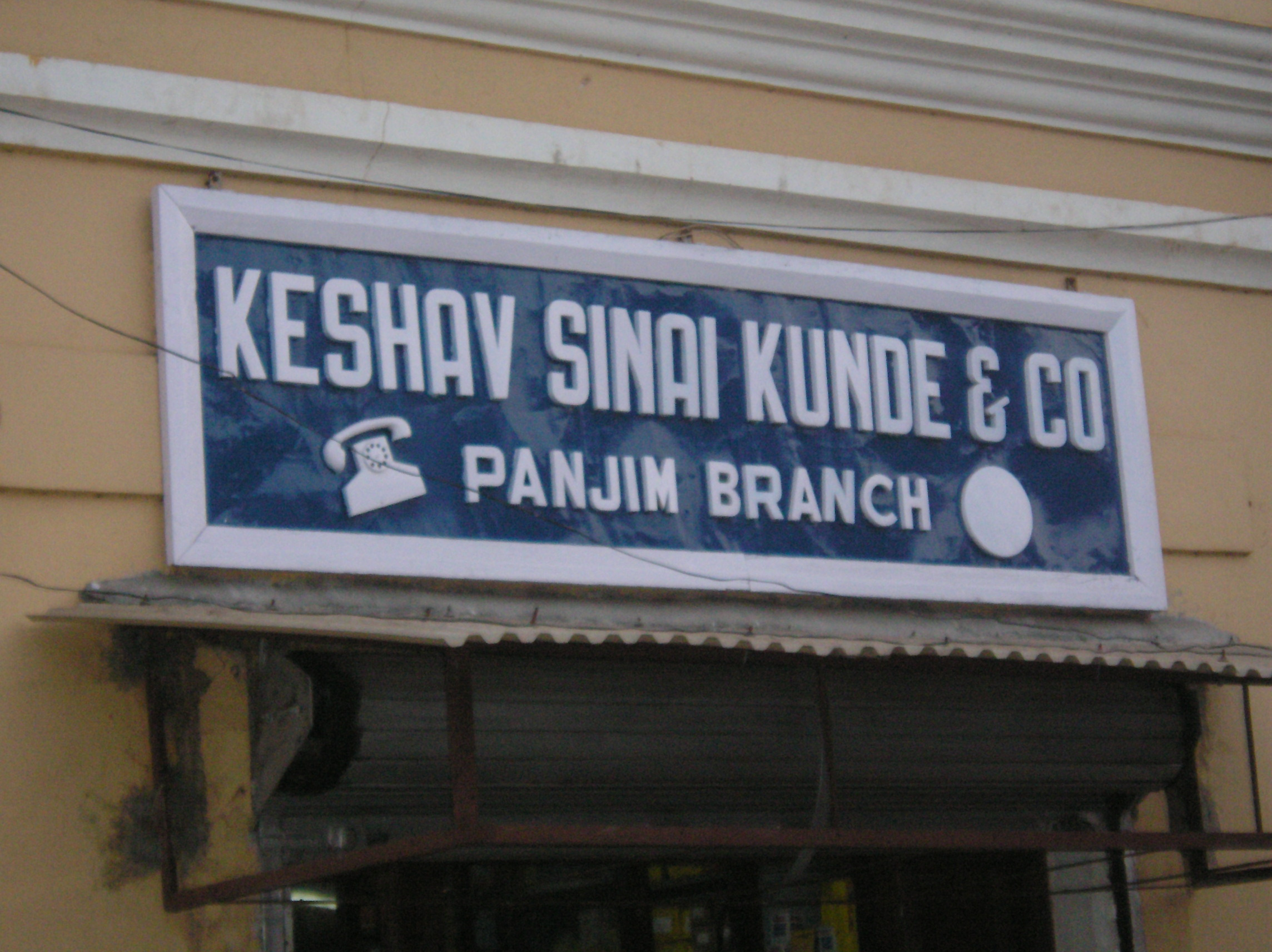 Plaque with name 'Sinai' outside commercial establishment, Panaji, Goa, India